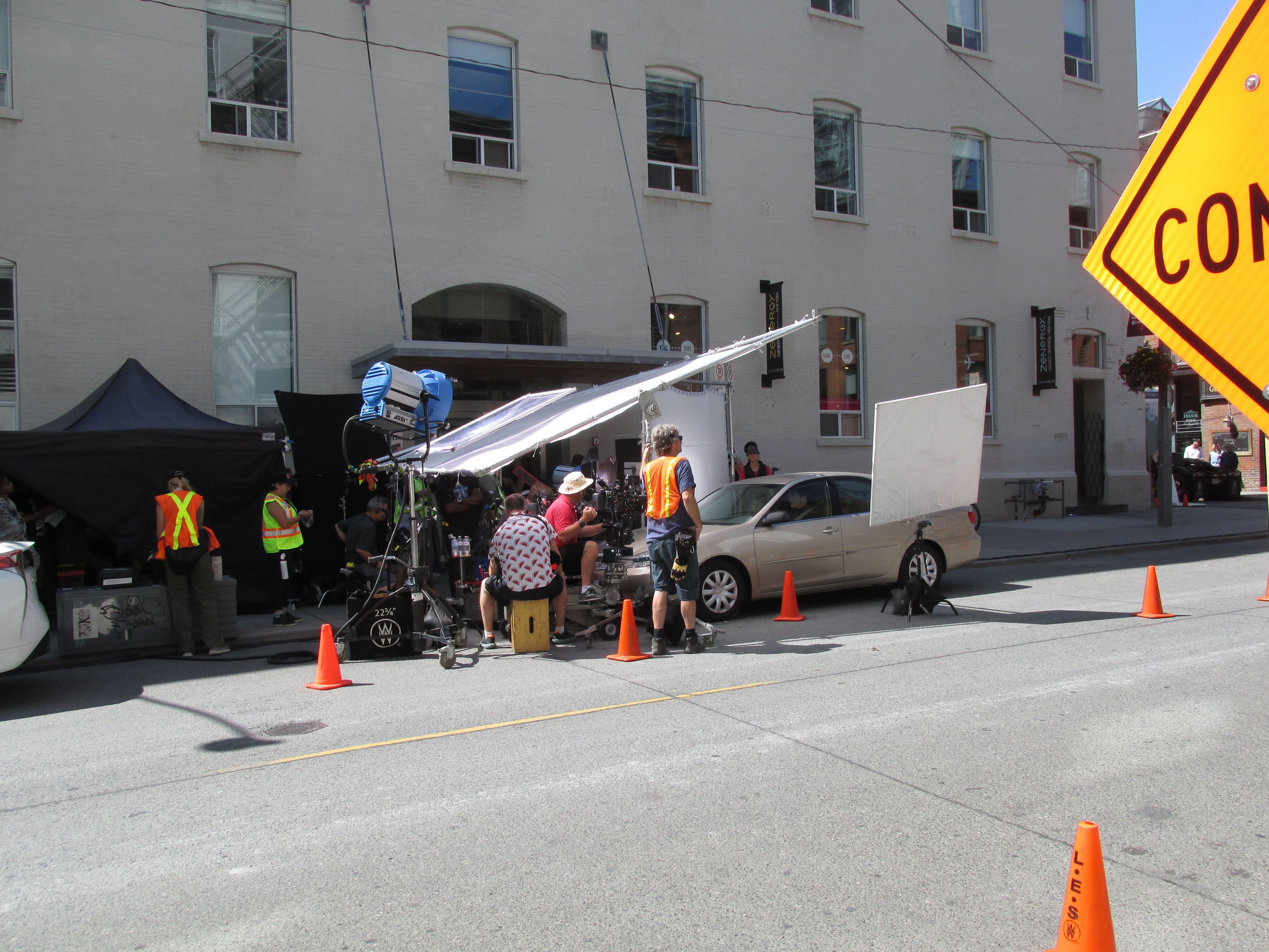 Filming for "In the Dark" in Toronto, Ontario, Canada, outside of 276 King Street West.